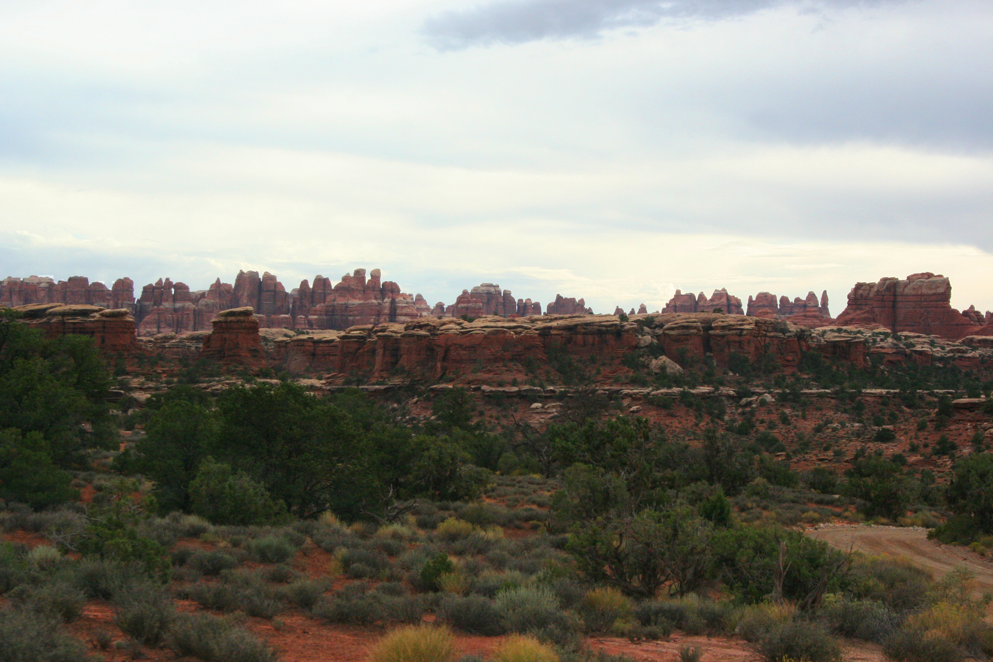 Canyonlands National Park in Utah (USA), The Needles District